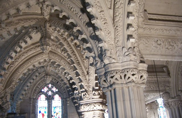 Carvings-Rosslyn Chapel Incredibly intricate stone carvings in Rosslyn Chapel.